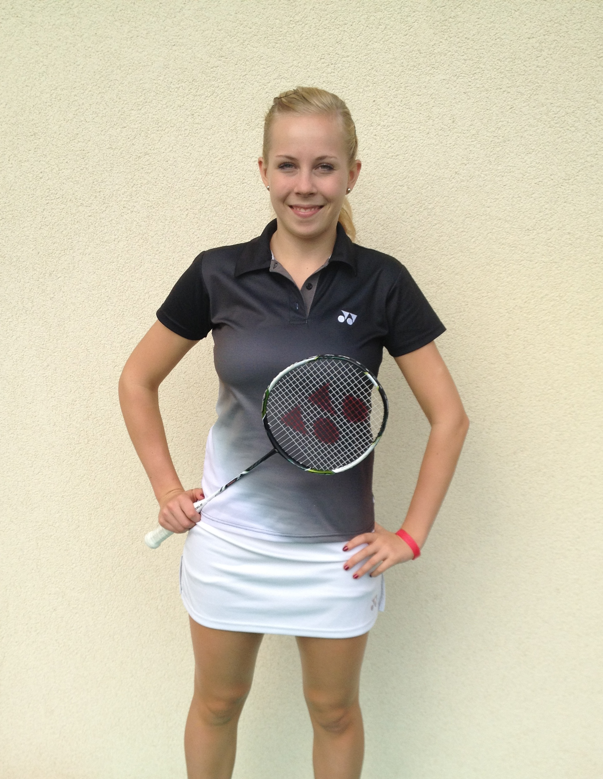 Badminton_photo